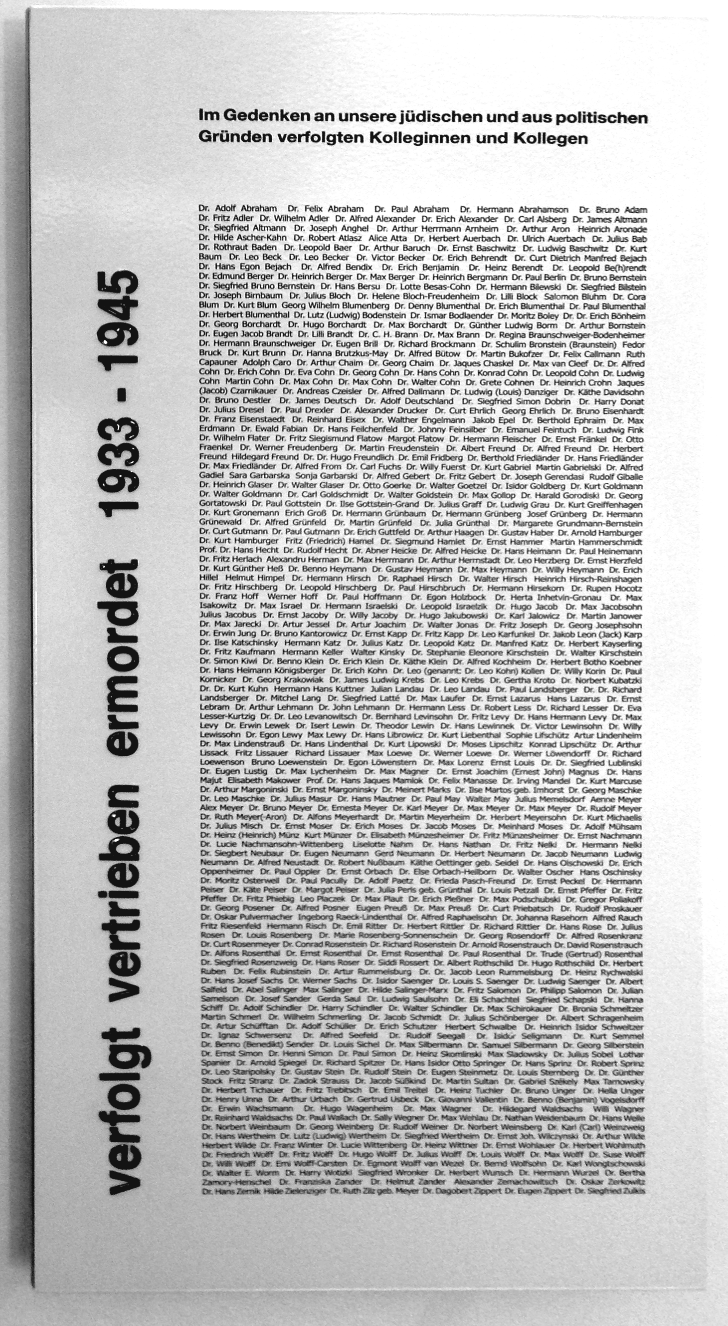 Plaque for withdrawal of Jewish dentists´ approval during the Nazi era in the dentists' association of Berlin